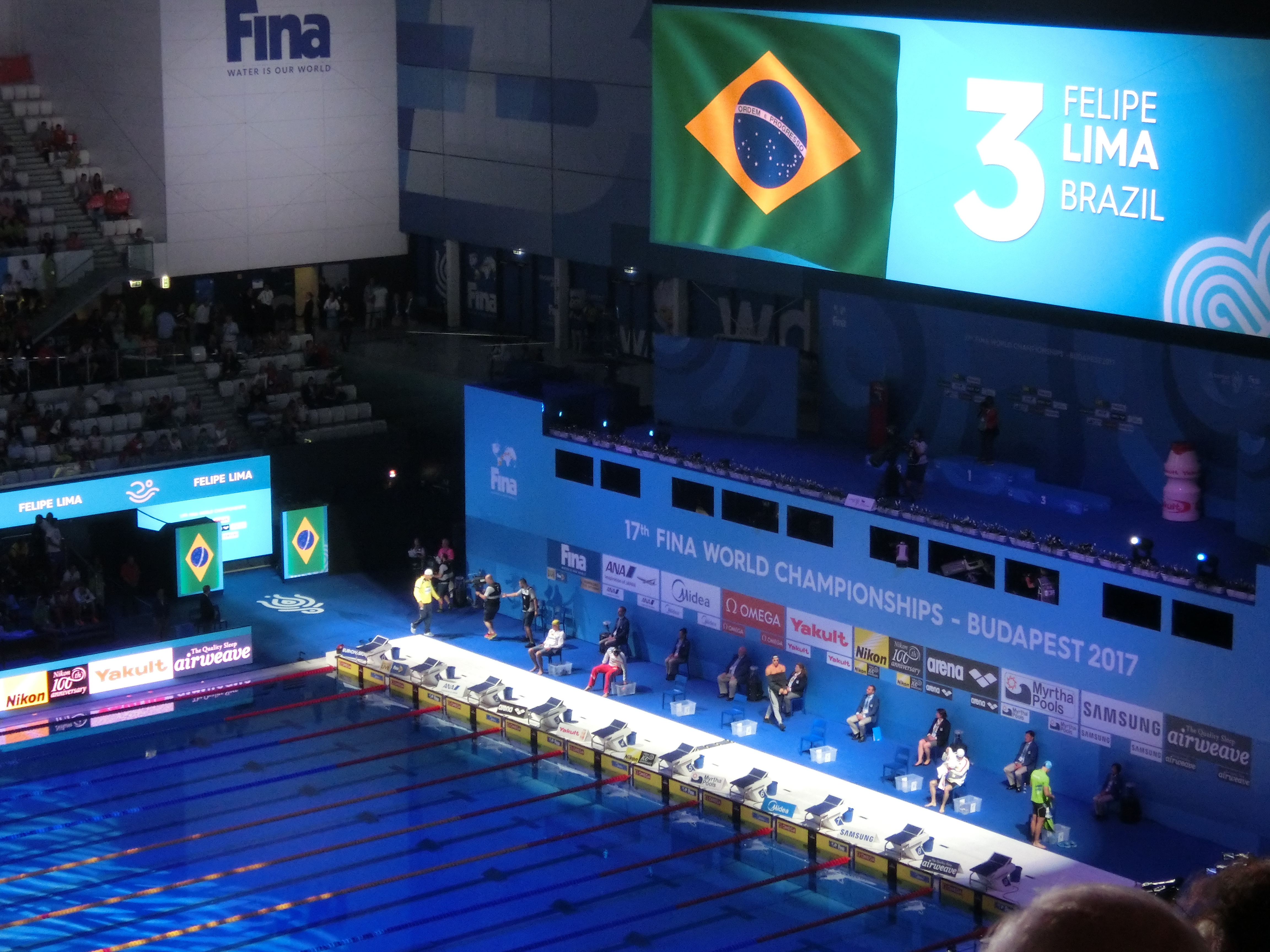 FINA World Championships, Budapest, 2017-07-25, 50m breaststroke semifinal, Felipe Lima (Brazil)